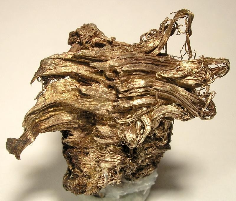 Silver Locality: Mololoa Mine, Hostotipaquillo, Municipio de Hostotipaquillo, Jalisco, Mexico (Locality at ) Beautiful and very aesthetic group of thick silver wires with a deep rich coppery-silver color. Such good color, luster, and form make this a very attractive and unusual silver thumb. 2.3 x 1.8 x 1.2 cm